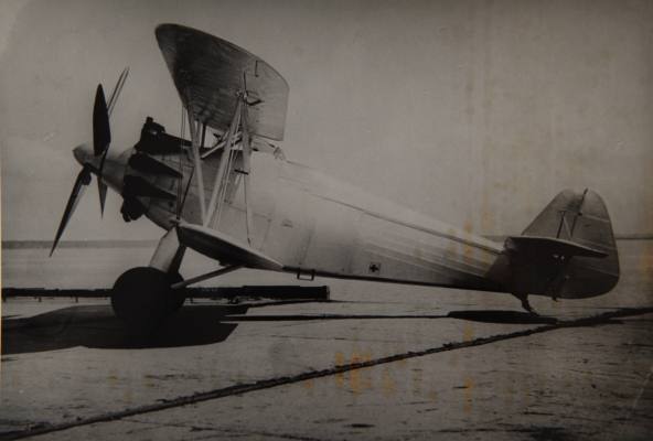 Arado Ar 64c